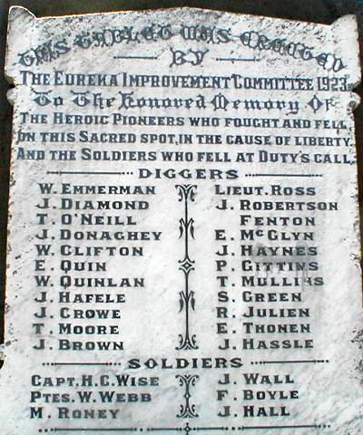 A memorial stone for those who died in the Eureka Stockade located on the Eureka Monument in Eureka Park, Ballarat. Construction of the monument was completed in 1886. Imagen acquired from Image:Eureka_Stockade.jpg